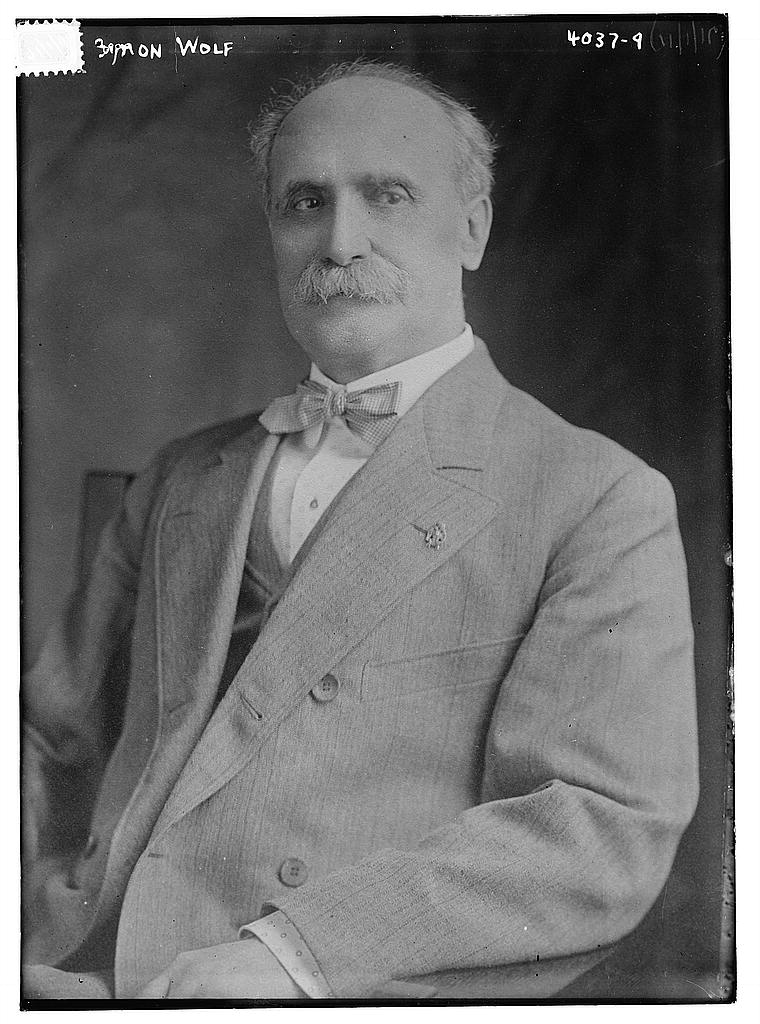 Simon Wolf in 1916